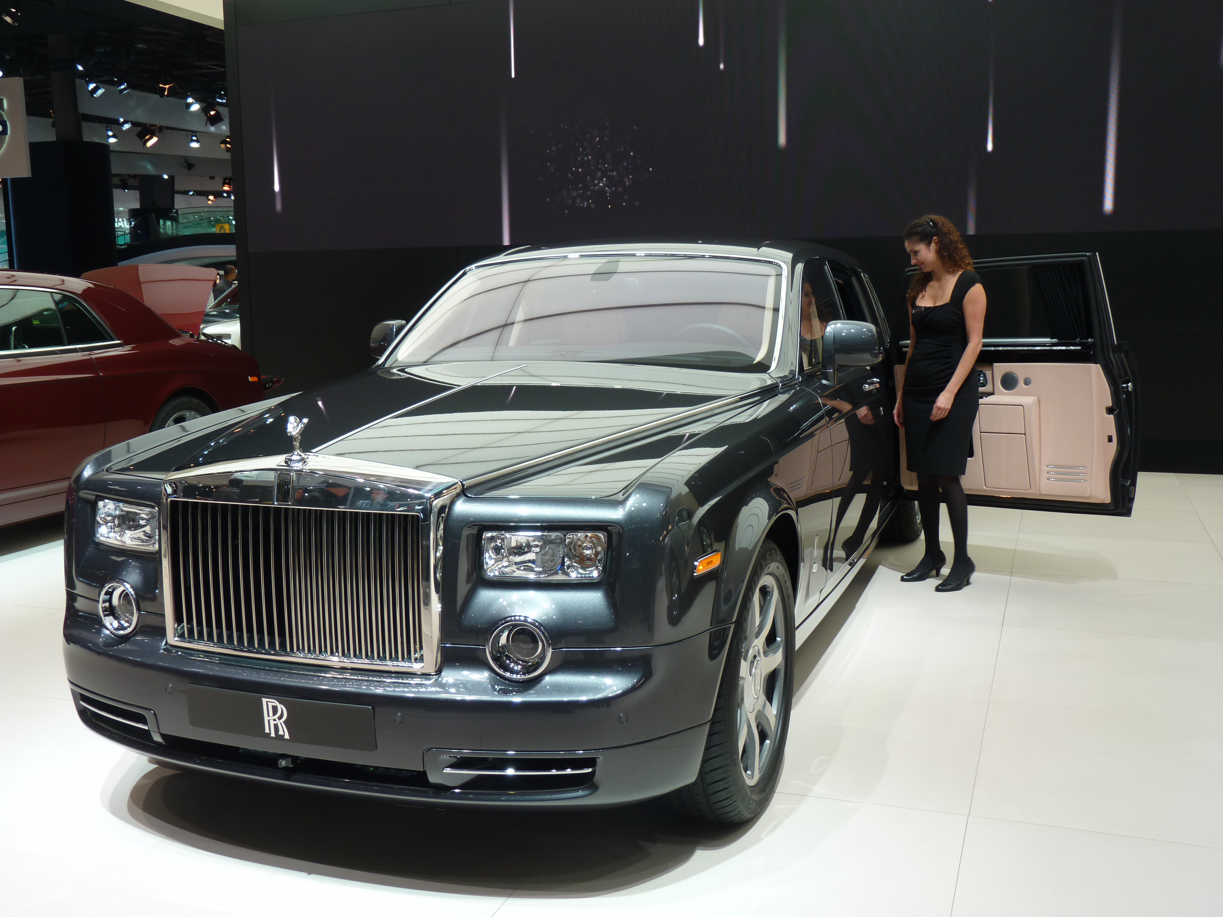 The Rolls-Royce Phantom at the Paris Motor Show.